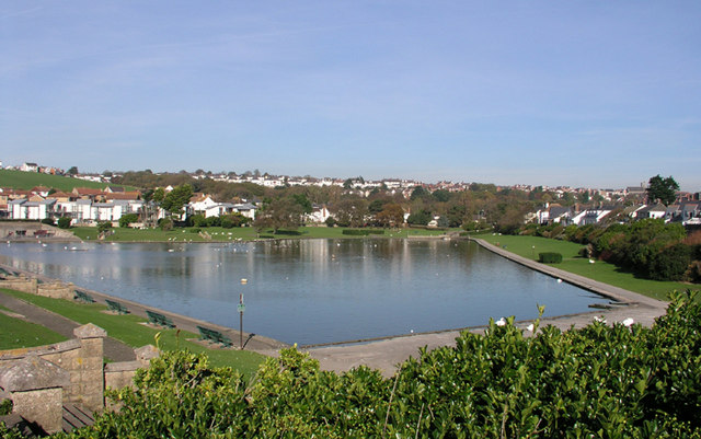 Knap Boating Lake Constructed in the shape of a Welsh harp - is now more of a Swan Lake